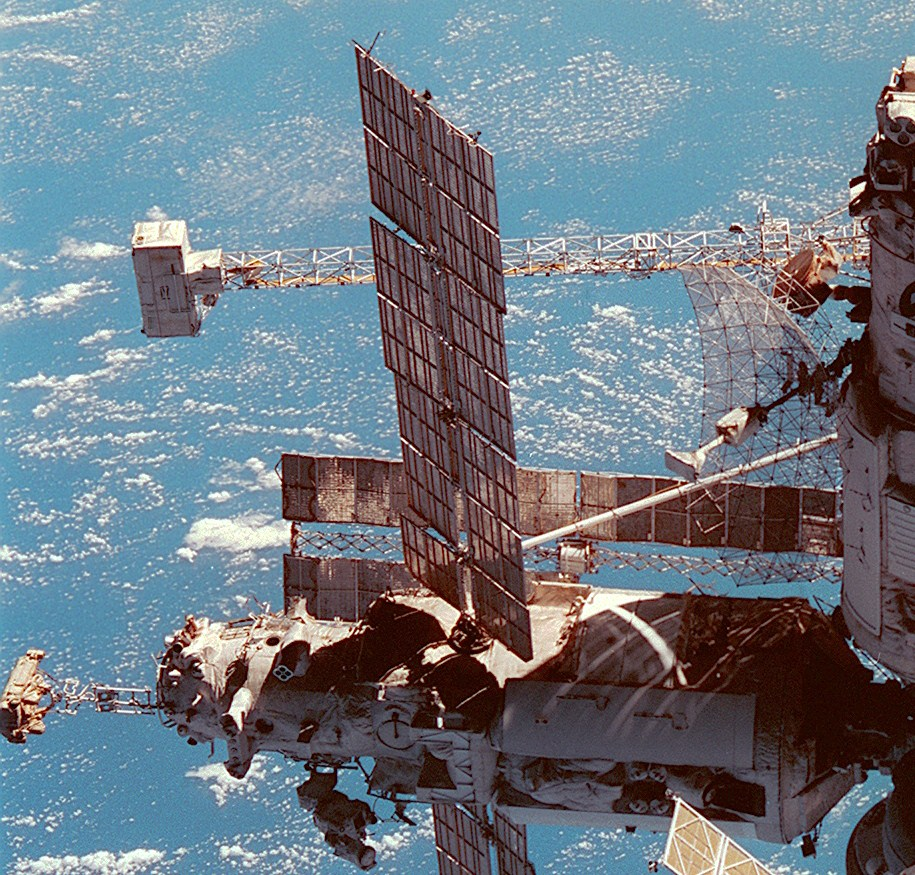 A view of the Soviet/Russian space station Mir showing some of the station's main unpressurised components. The large scaffolding-like structure visible behind Kvant-2 is the Sofora girder, with the VDU thruster block mounted to its far end. One of the station's Strela cargo cranes (the white, tubular structure stretching from Priroda to Kvant-2) is also visible. The cosmonaut manoeuvring unit, or SPK, can be seen at the lower left, attached to a mounting bracket on the end of Kvant-2, and the ASPG-M scan platform is visible at the bottom of the image, also mounted to Kvant-2. Finally, a large synthetic aperture radar dish, called TRAVERS, can be seen projecting from Priroda.